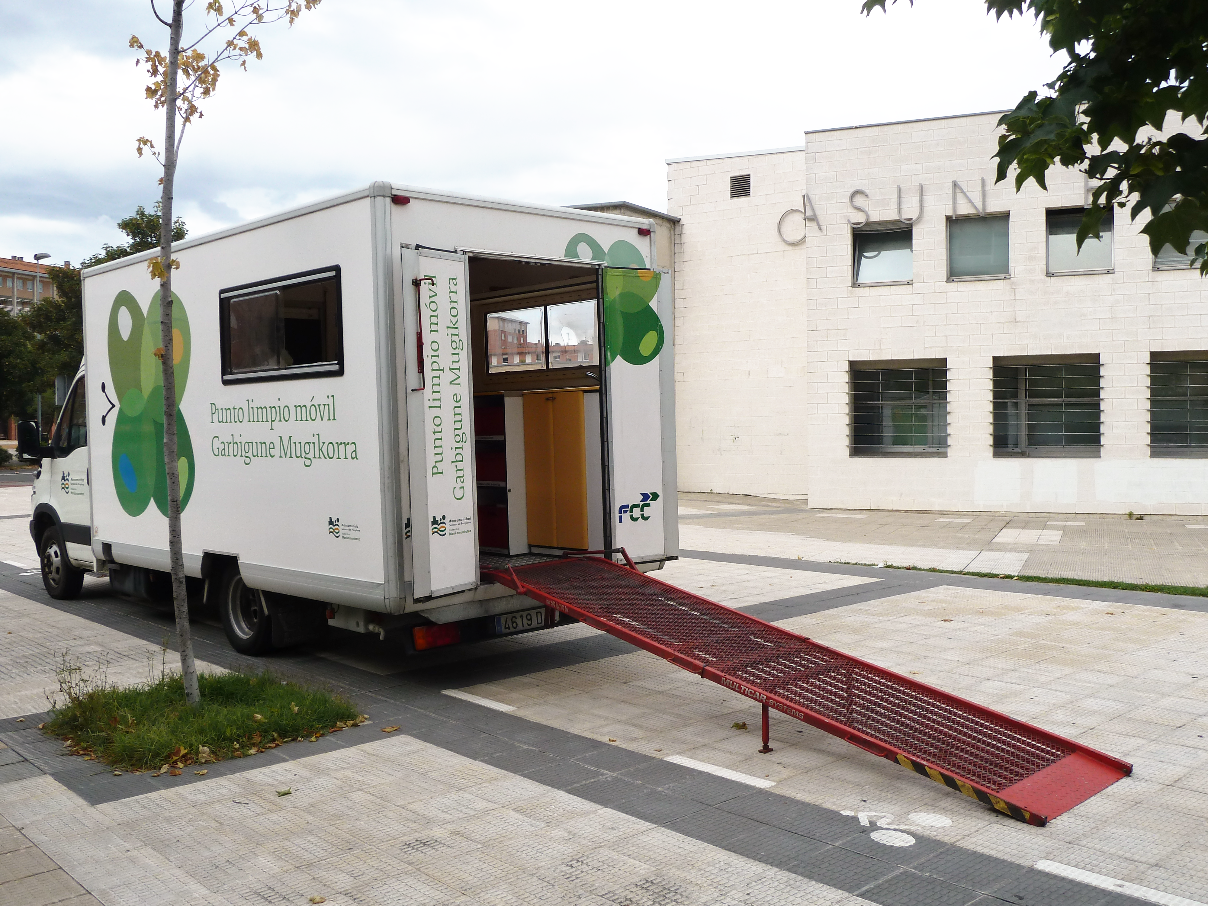 The mobile recycling points are vehicles that go to different villages and districts in the area of Pamplona/Iruña. They are intended to collect selectively that special wastes generated at home, such as paints and automotive products. The point in the district of San Jorge/Sanduzelai is active on Wednesdays from 16:00 to 21:00 hours -Sanduzelai Street (next to the Health Center)-.